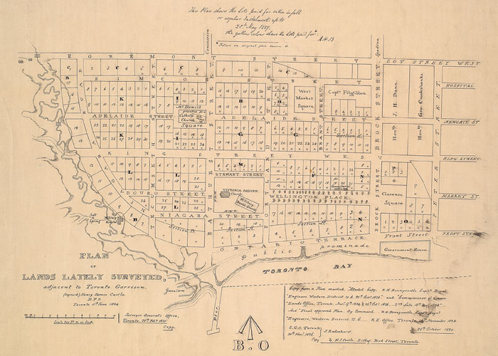 1837 Plan for Wellington Place (New Town Extension). The north-south streets are, from east to west: Peter Street (this segment is present-day Blue Jay Way), Brock Street (present-day Simcoe Street), Brant Street, Portland Street, Bathurst Street, and Tecumseh Street. The area to the west was once part of the harbour, but is now land after years of infill. The east-west routes, from south to north, are Front Street, King Street, Adelaide Street, Simcoe Street (present-day Richmond Street), and Lot Street (present-day Queen Street).